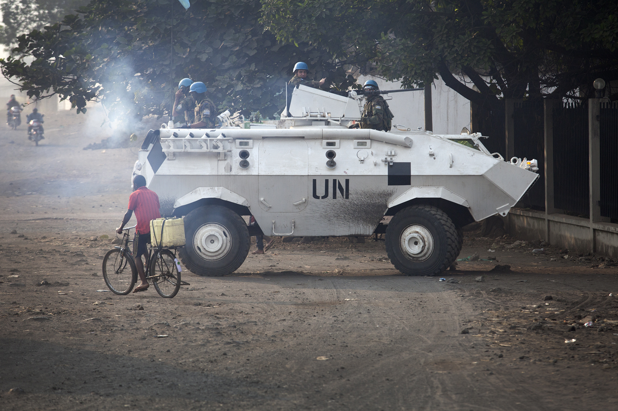 MONUSCO Urubatt armored vehicles securing streets of Goma for protection of civilians as M-23 rebels threaten to take the city, the 13th of July 2012 . © MONUSCO/Sylvain Liechti